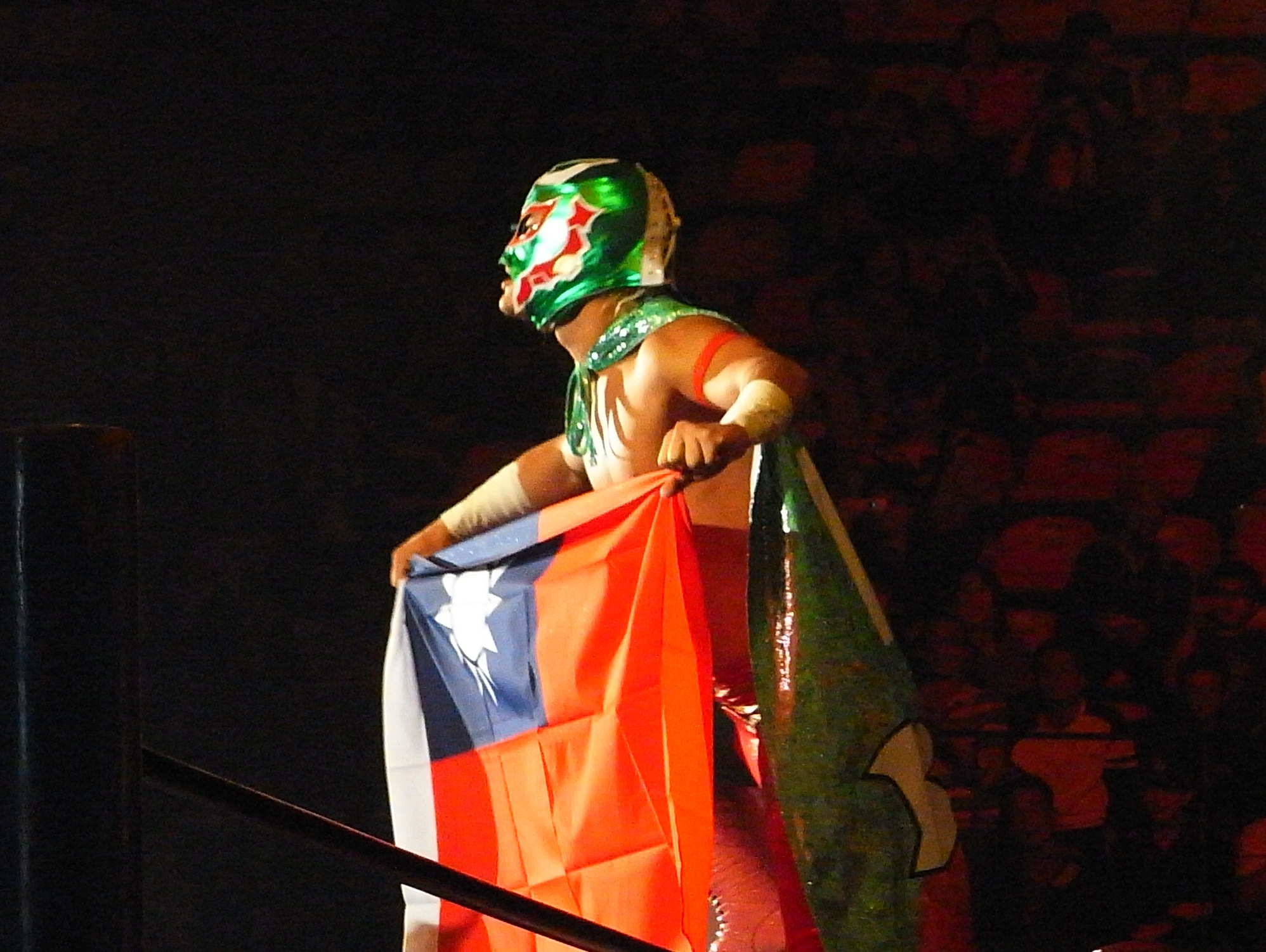 BUSHI, professional wrestler.